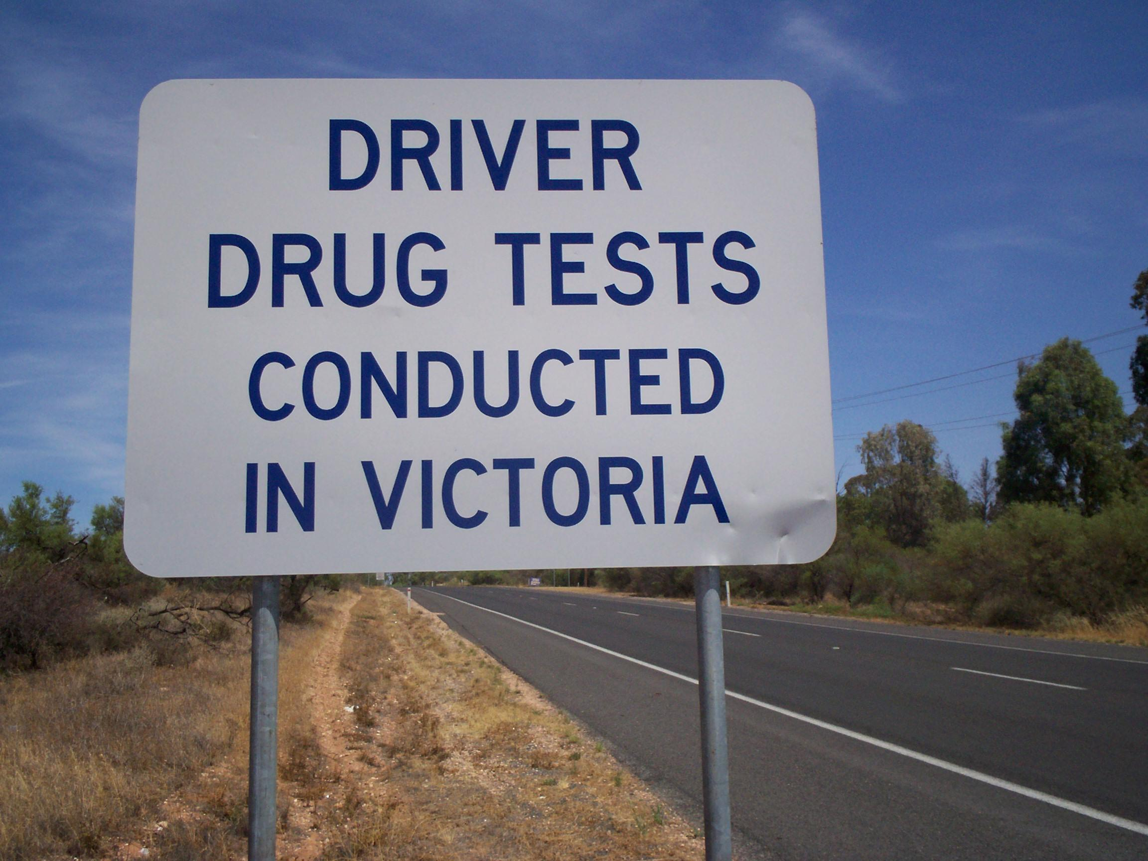 Photograph taken by myself near Yelta, Australia, December 23, 2006.